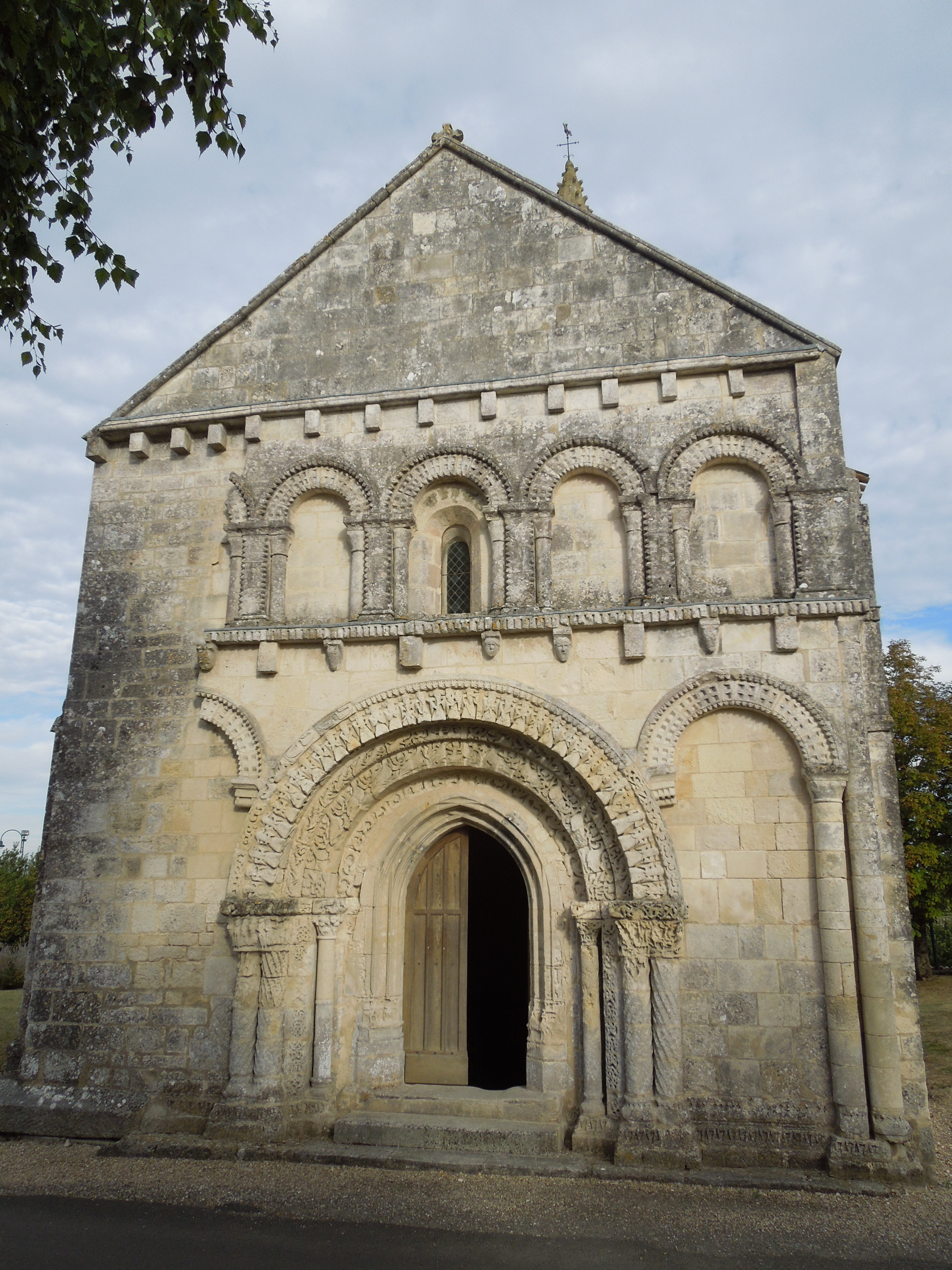 Avy, western facade of the village church Notre-Dame